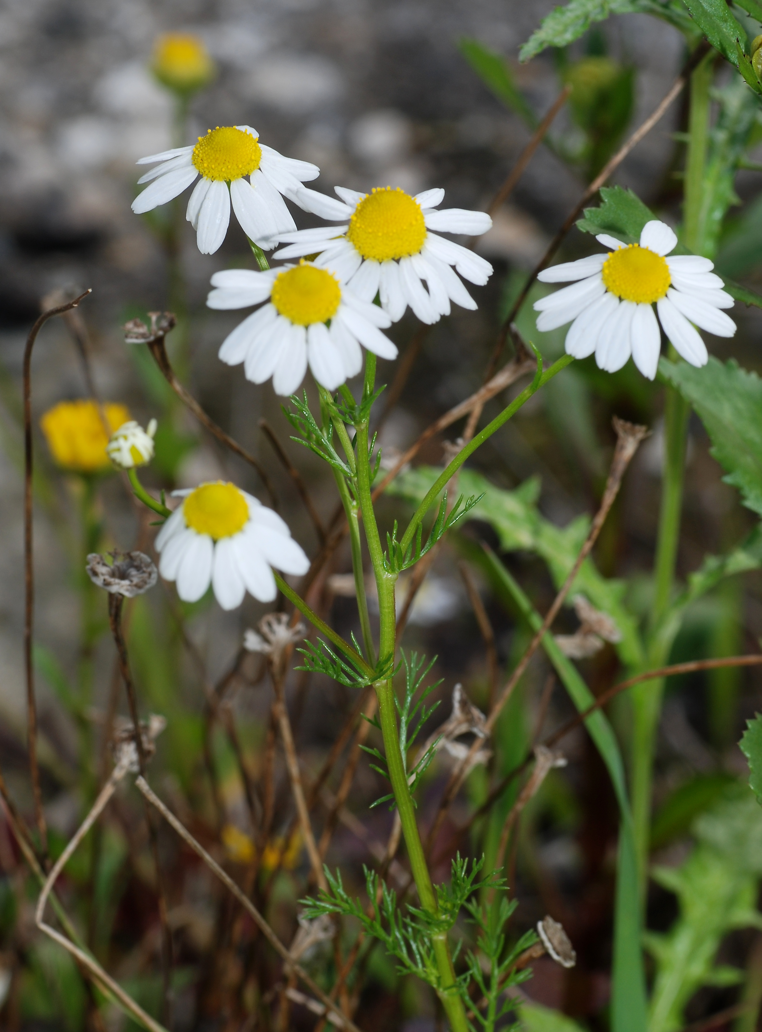 Chamomile, Matricaria recutita is sometimes called Scented Mayweed.